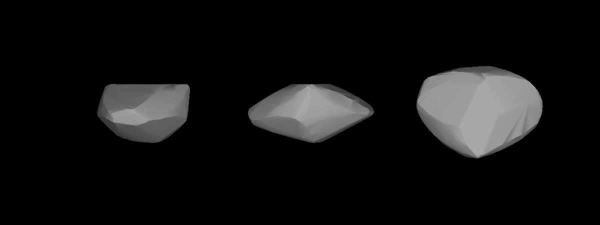 Three-dimensional model of 66 Maja created based on light-curve.